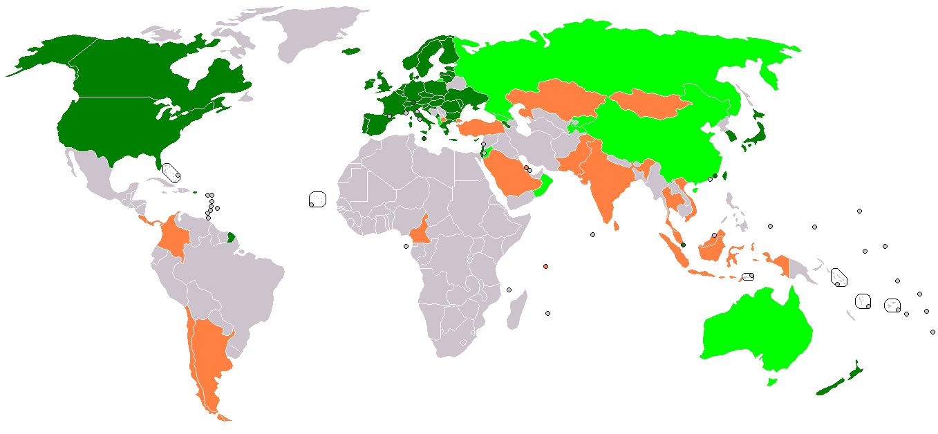 Dark green - members; light green - observers in accession negotiations; orange - observers only